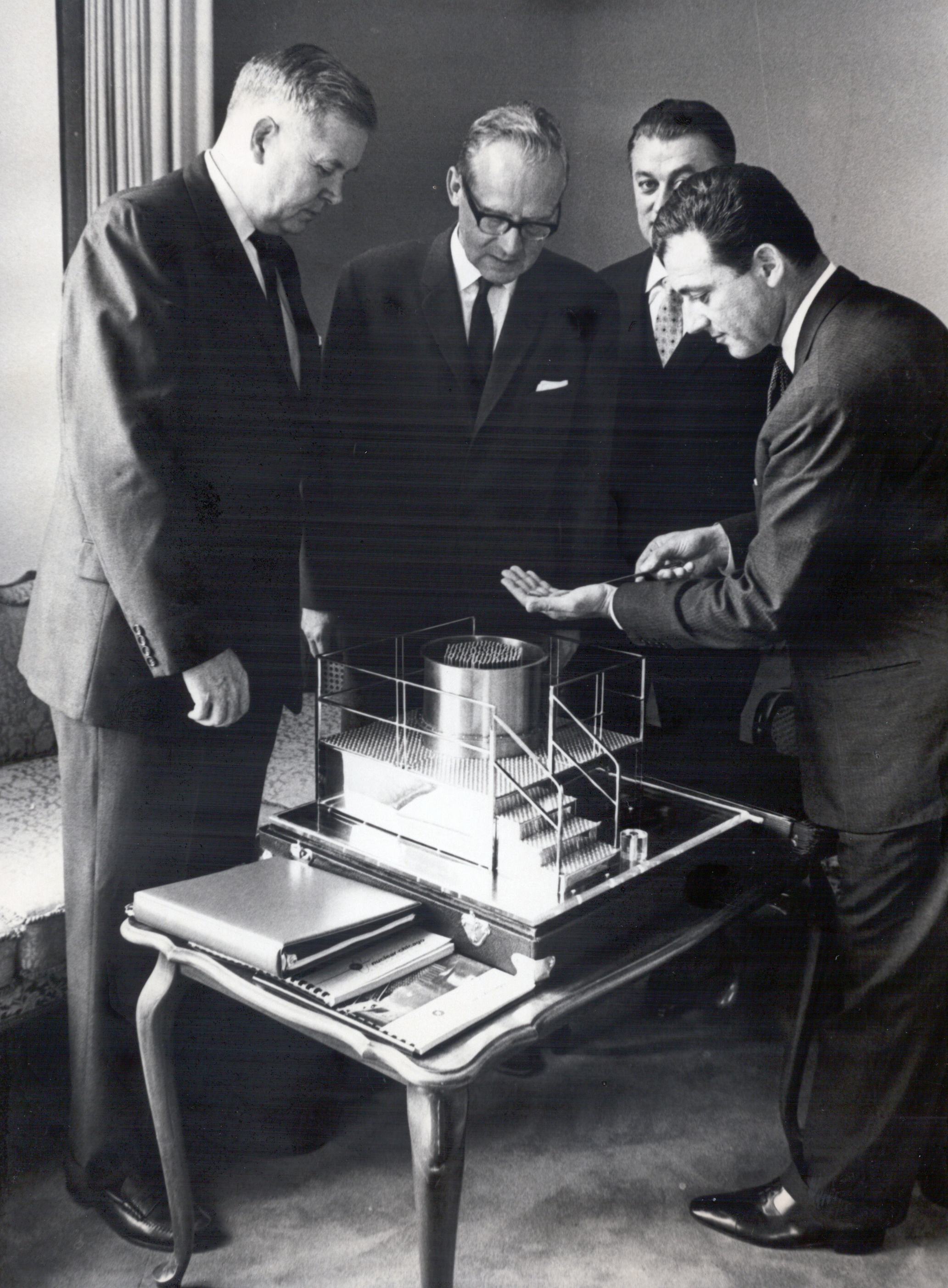 Commissioner Gerald Tape of the United States Atomic Energy Commission on behalf of the Commission and the Nuclear Chicago Corporation donates a model of an in-expensive sub-critical assembly unit showing its detailed technical information on its design, fabrication and operating characteristic to the International Atomic Energy Agency. Present at the ceremony, from far left to right: Commissioner Tape, IAEA Director General Dr. Sigvard Eklund, Mr. Cezary Bujalski, Special Representative International Assignments Nuclear Chicago Corporation and Mr. A.M. Schwieger, Managing Director Nuclear Chicago Europe. (IAEA, Vienna, Austria, September 1964) Copyright: IAEA Imagebank Photo Credit: IAEA